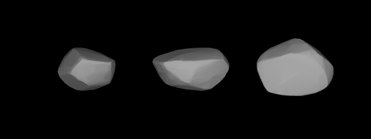 A three-dimensional model of 257 Silesia that was computed using light curve inversion techniques.